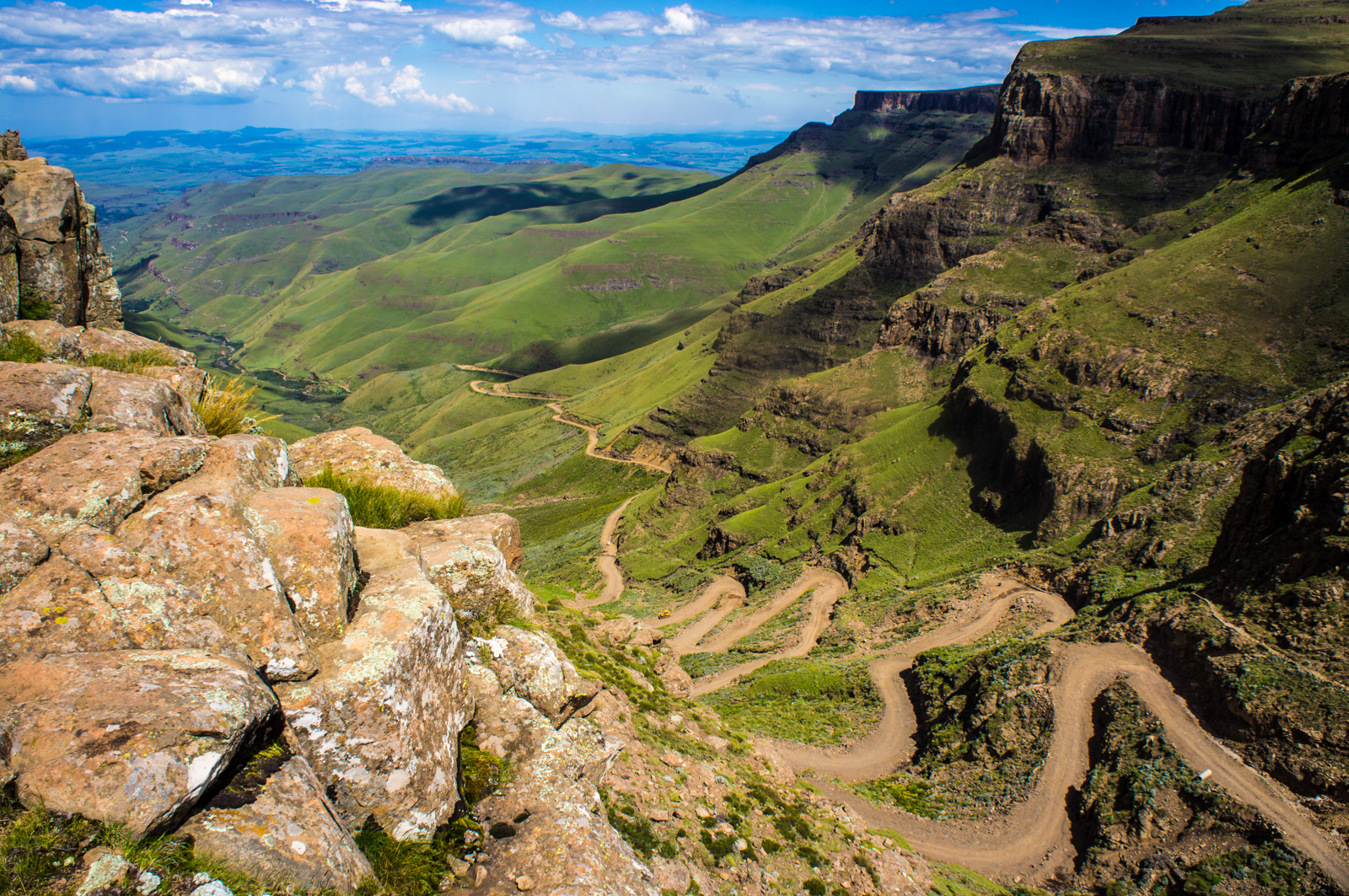 The road through Sani Pass taken from the rim of Drakensberg Escarpment within 100 metres of the South African/Lesotho border.